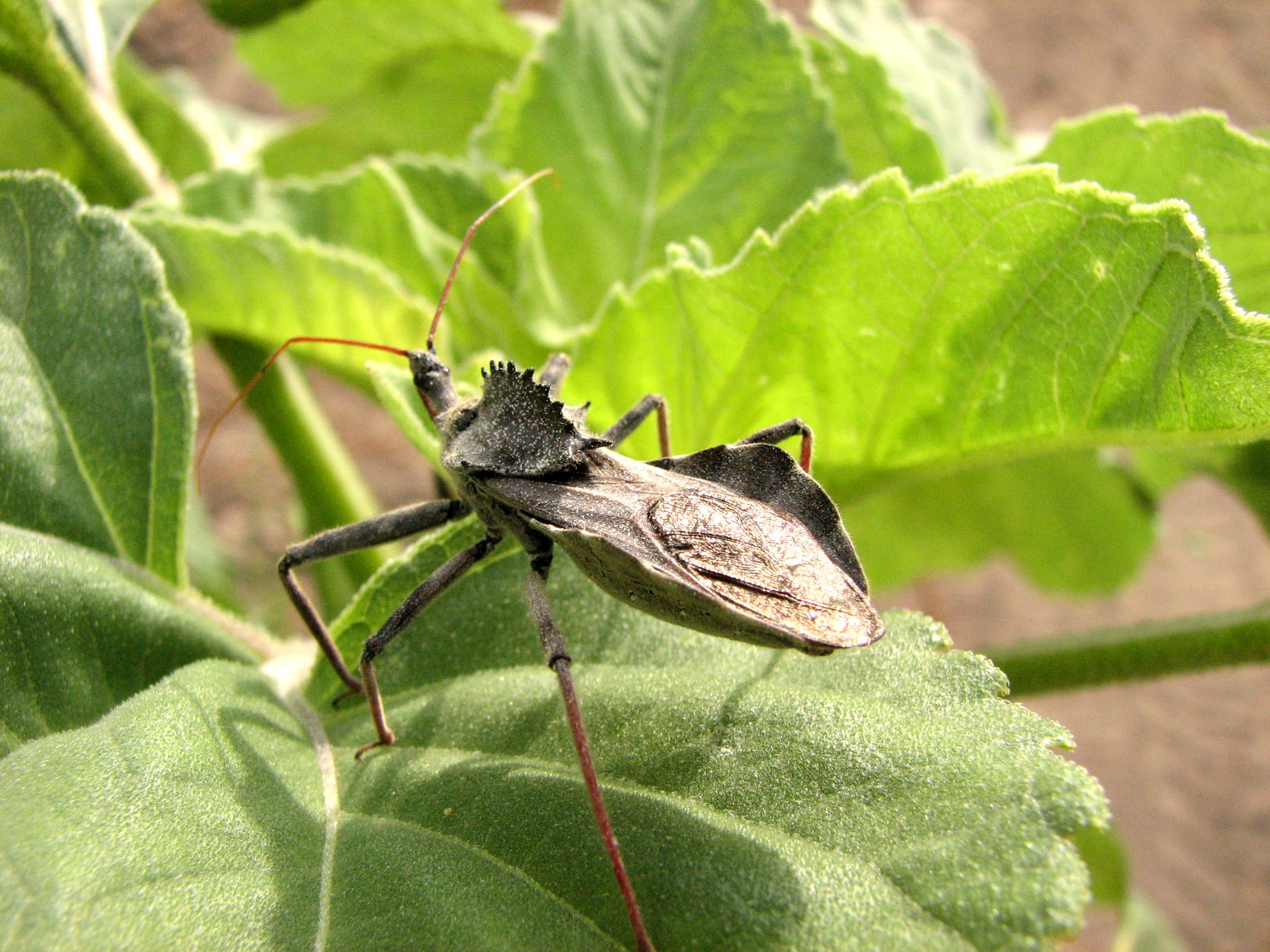 Photo of a wheel bug (Arilus cristatus) on an annual sunflower leaf.